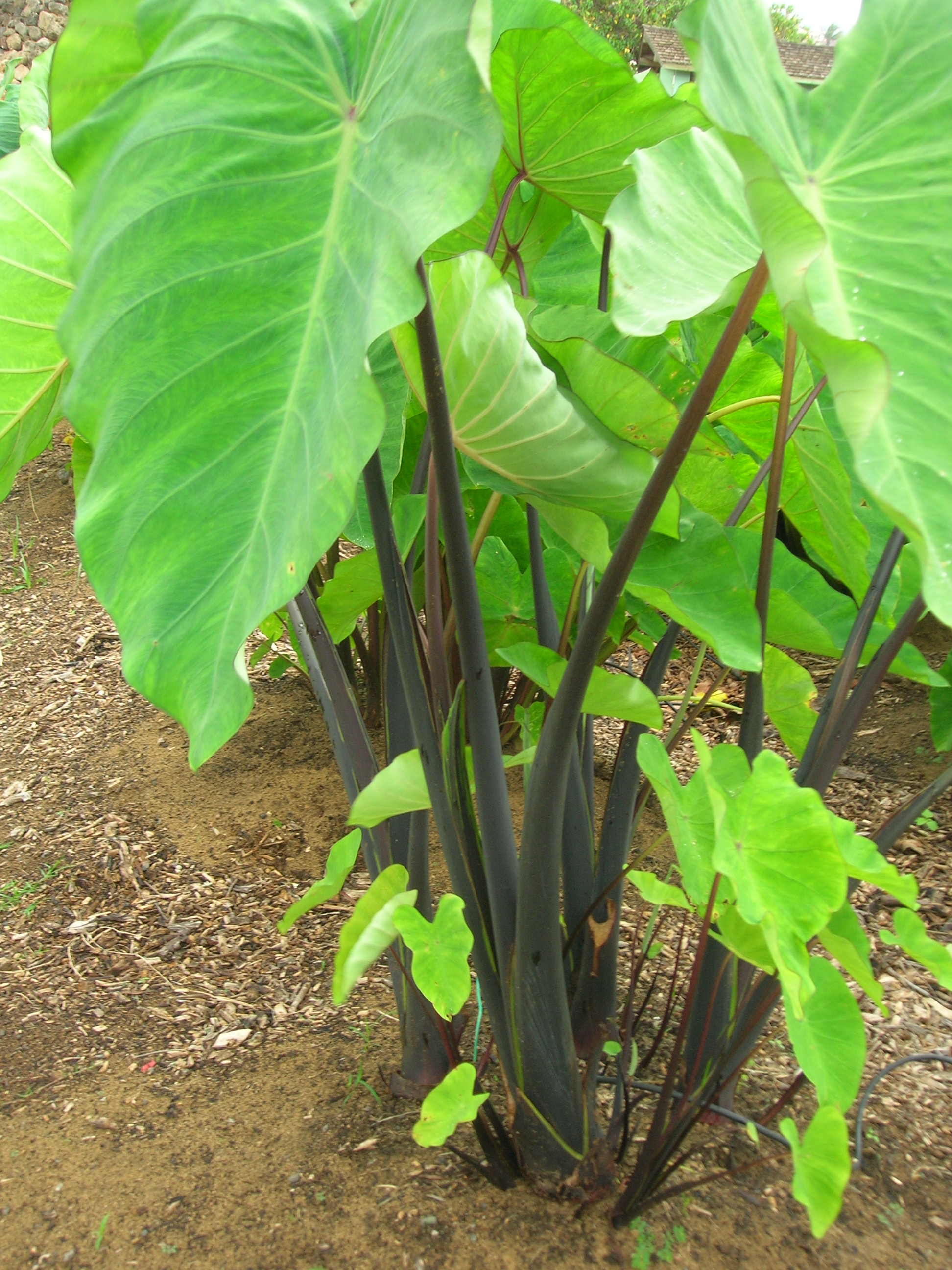 Colocasia esculenta (habit). Location: Maui, Maui Nui Botanical Gardens